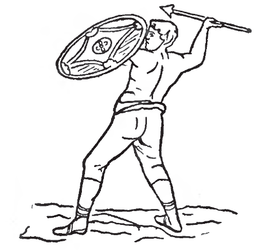 Roman velite, as printed in Theodore Ayrault Dodge's A HISTORY OF THE ART OF WAR AMONG THE CARTHAGINIANS AND ROMANS DOWN TO THE BATTLE OF PYDNA, 168 B. C., WITH A DETAILED ACCOUNT OF THE SECOND PUNIC WAR, Houghton Mifflin Company, Boston & New York (1891). Hand scanned.